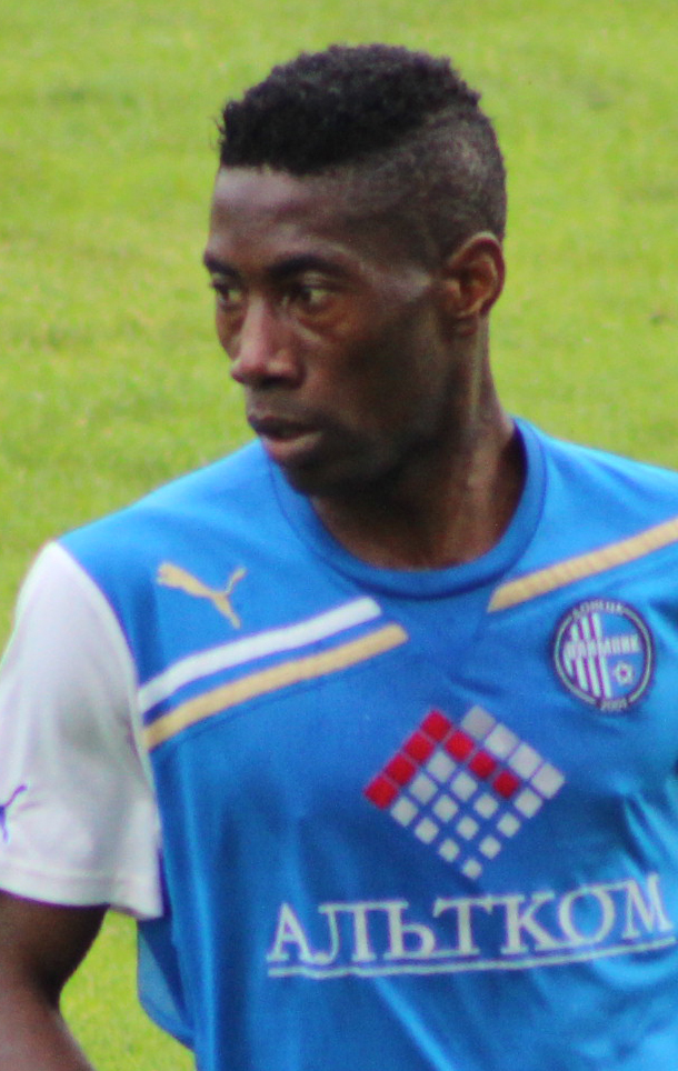 Sheriff Isa